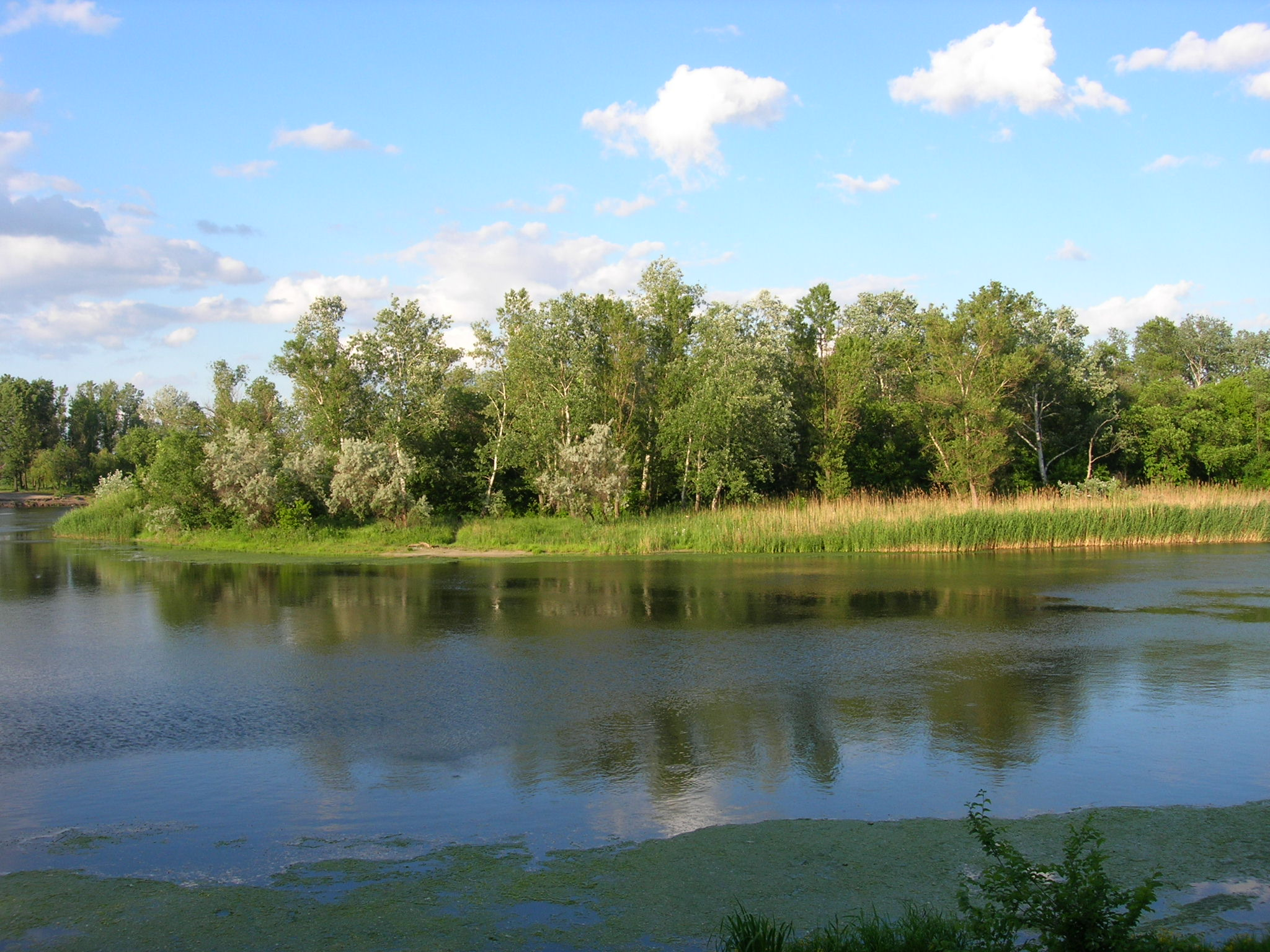 Samara River near Novomoskovsk